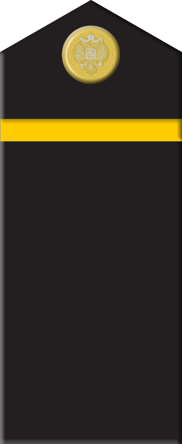 Rank insignia of the Imperial Russian Navy until 1917, shoulder strap "Able seaman".